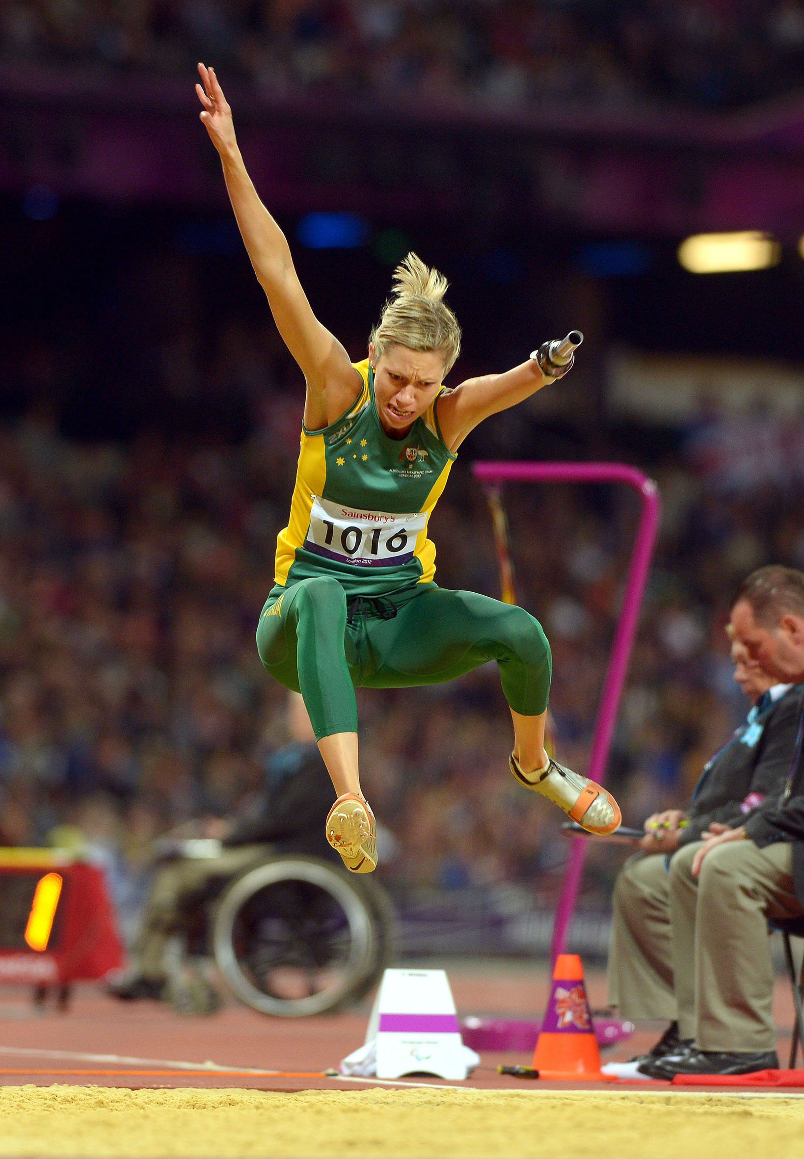 Photograph of Australian Paralympic team member Carlee Beattie at the 2012 Summer Paralympic Games in London